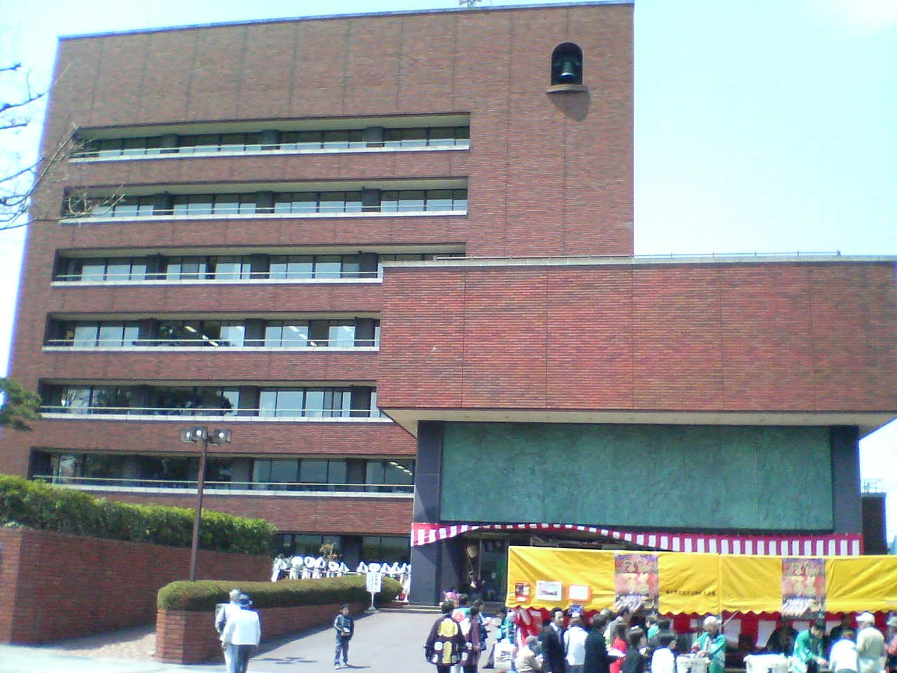 Oshu City Hall in Iwate Prefecture, Japan